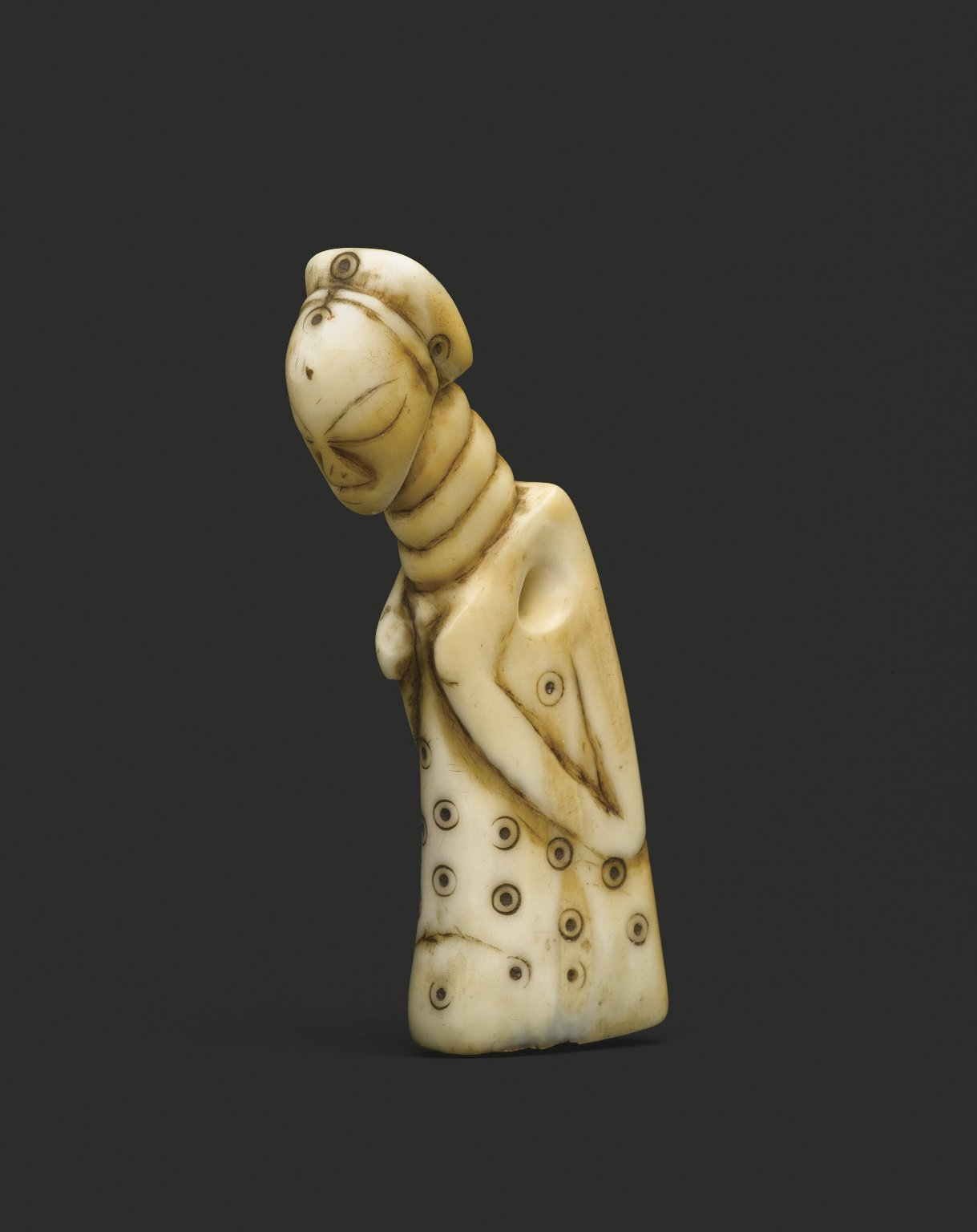 Pendant in the form of a woman; through shoulders are holes for hanging. Head is thrust forward; long neck has three rings stacked one on top of the other. Small circles with dots decorate figure. Condition: Good